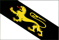 Leova rajon flag